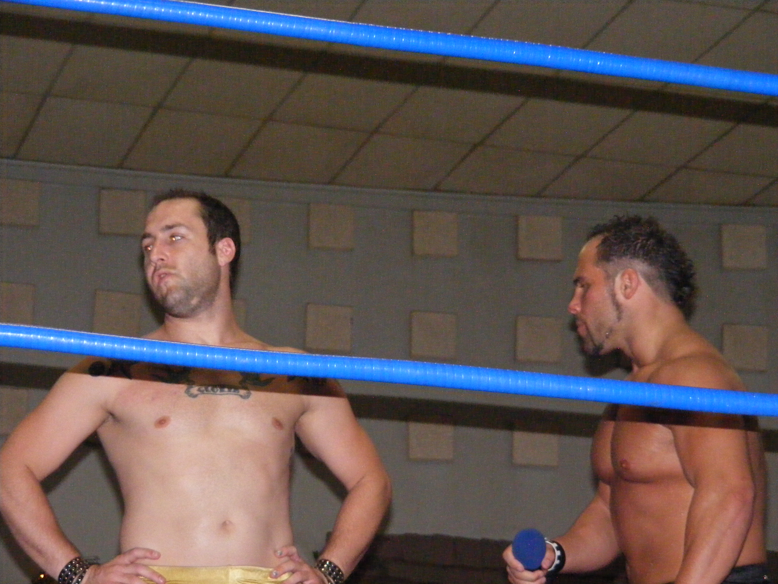 Josh Raymond (left) and Christian Abel (right) at Chikara's Young Lions Cup Night 2 in Reading, Pennsylvania on August 28, 2010.